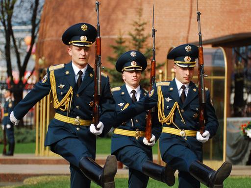 Goose step